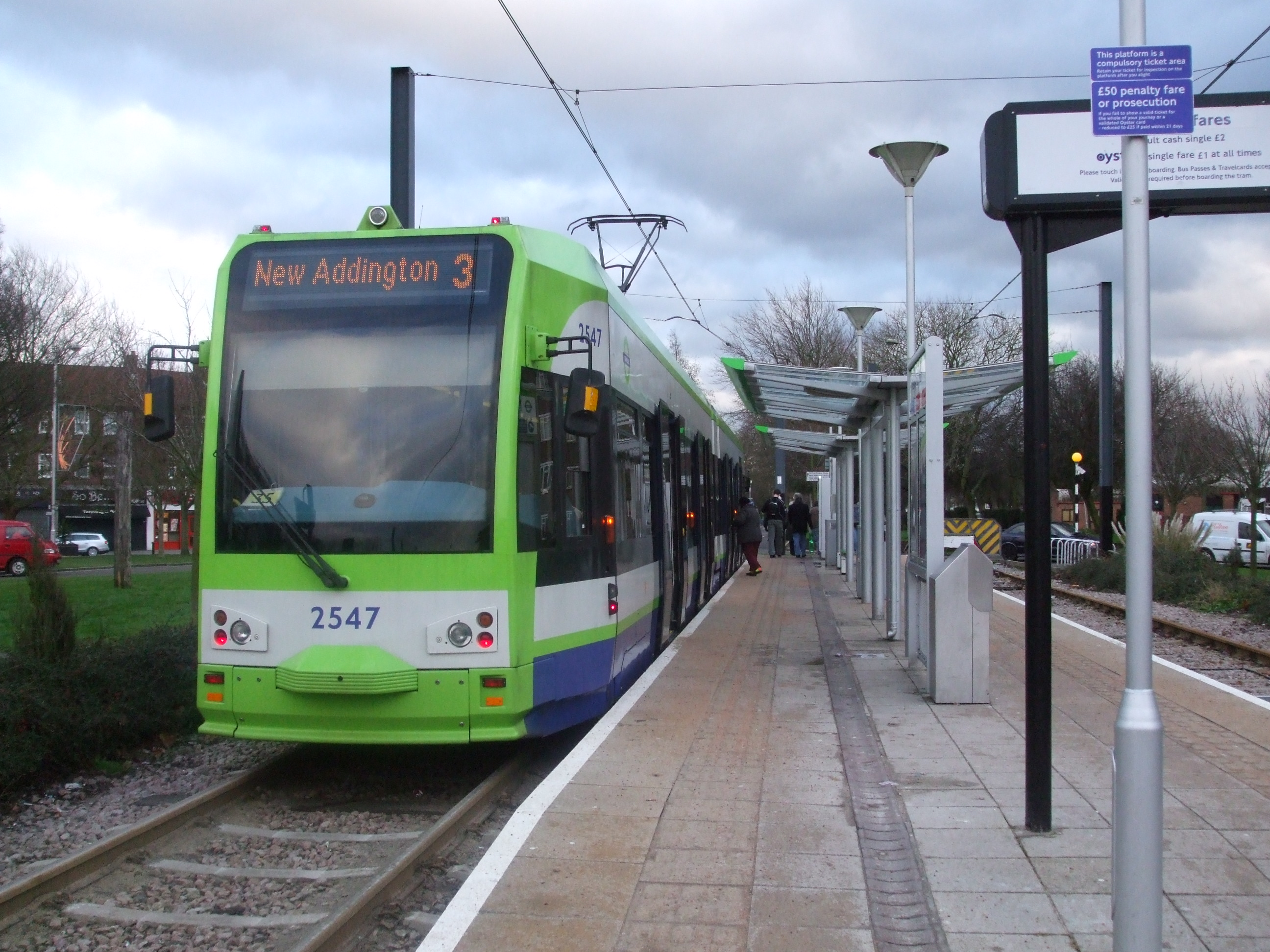 Tram 2547 at New Addington tram stop, awaiting return to Wimbledon